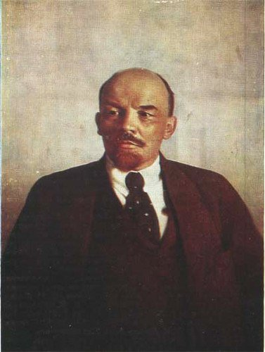 Portrait of V.I. Lenin by Ivan Parkhomenko. 1921